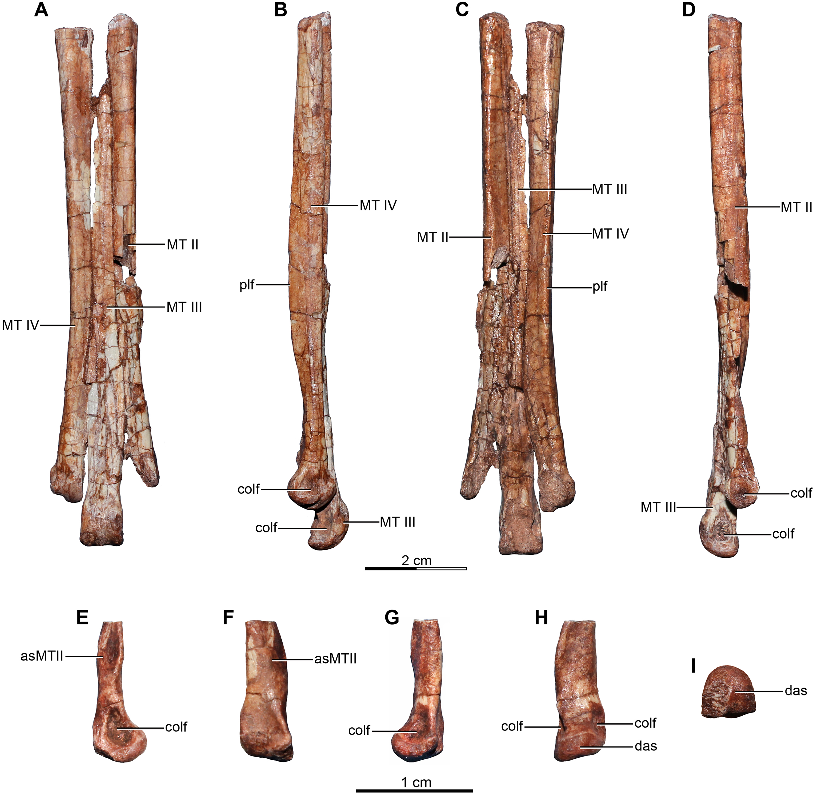 Metatarsus of the referred specimen of Buitreraptor gonzalezorum (MPCA 238). (A–D) Articulated right metatarsals II, III and IV, in (A) anterior, (B) lateral, (C) posterior and (D) medial view. (E–I) Right metatarsal I, in (E) lateral, (F) posterior, (G) medial, (H) anterior and (I) distal view. Scales: 2 cm for A–D, 1 cm for E–I. asMT, articular surface for the metatarsal; colf, fossa for the collateral ligament; das, distal articular surface; MT, metatarsal; plf, posterolateral flange.